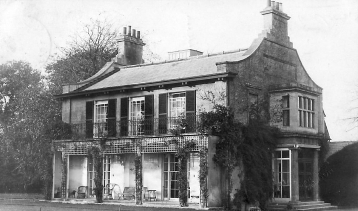 Chiseldon House, Wiltshire in about 1910